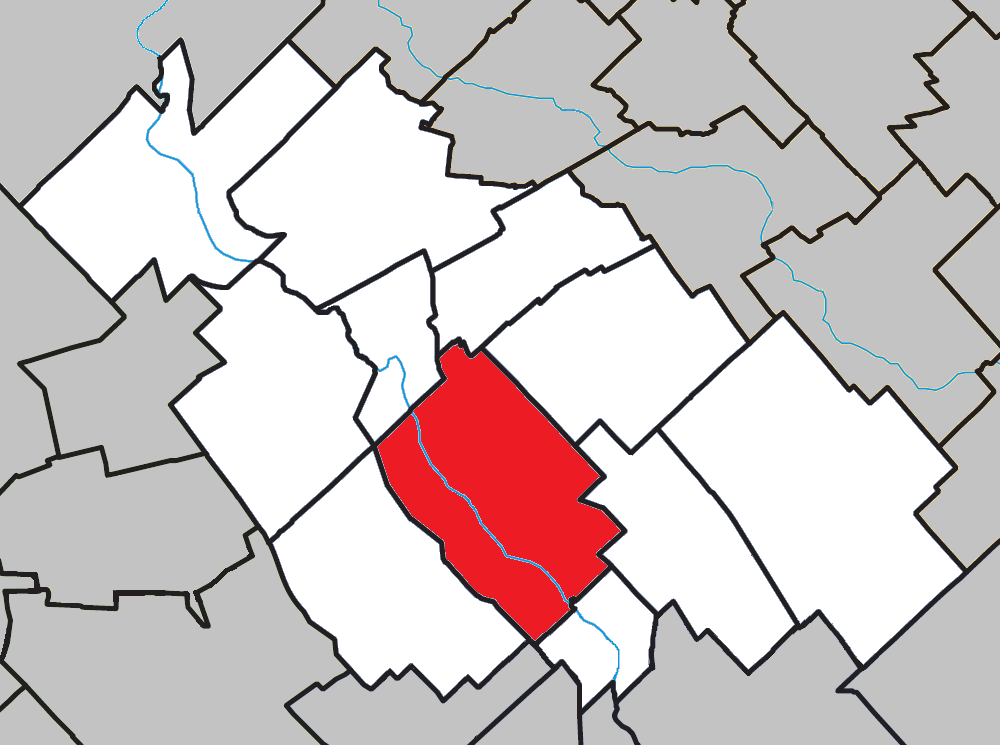 Location of Sainte-Marie, Quebec within La Nouvelle-Beauce Regional County Municipality.